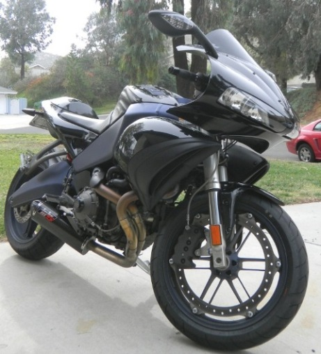 2008 Buell 1125R (25th Anniversary Signature Edition); Aftermarket exhaust modification.